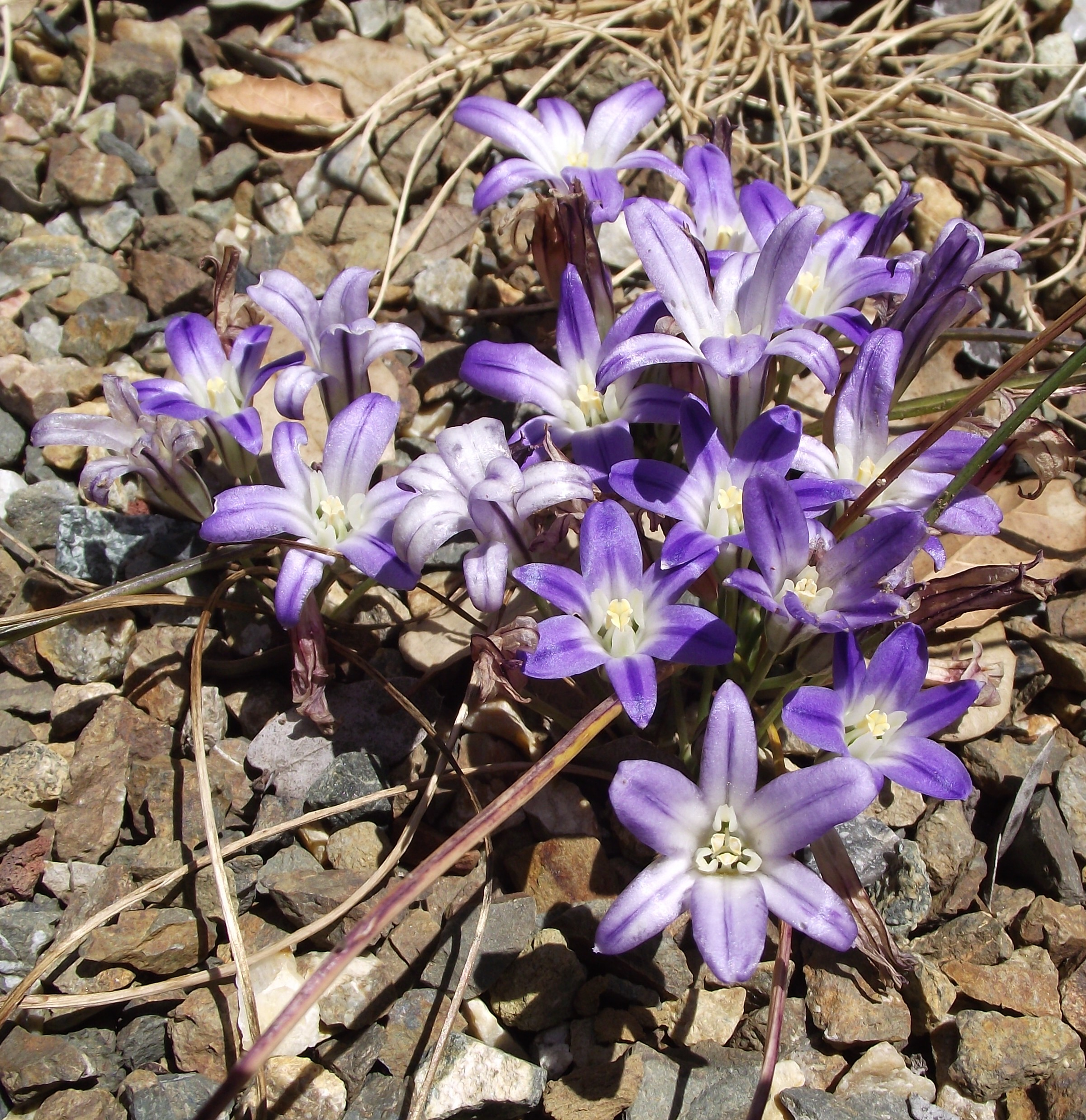 Brodiaea terrestris ssp. terrestris — Dwarf Brodiaea. At the University of California Botanic Garden, Berkeley, California. Identified by sign.